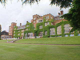 The Selsdon park Hotel, Selsdon, Surrey